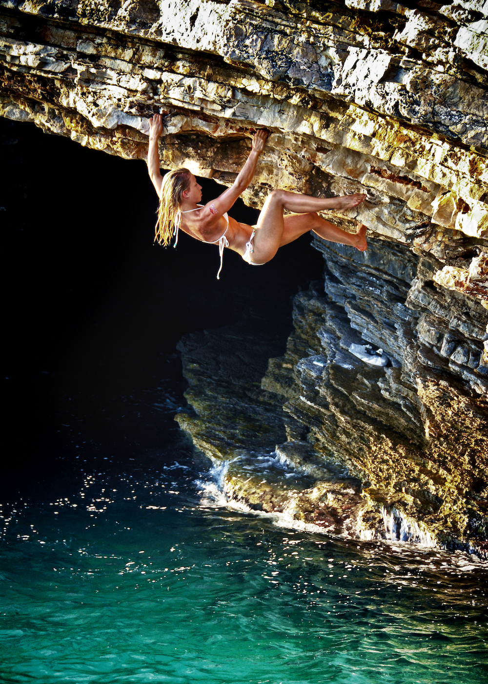 Natalija Gros, Kamenjak, Hrvaška, 2009 foto: Jure Breceljnik